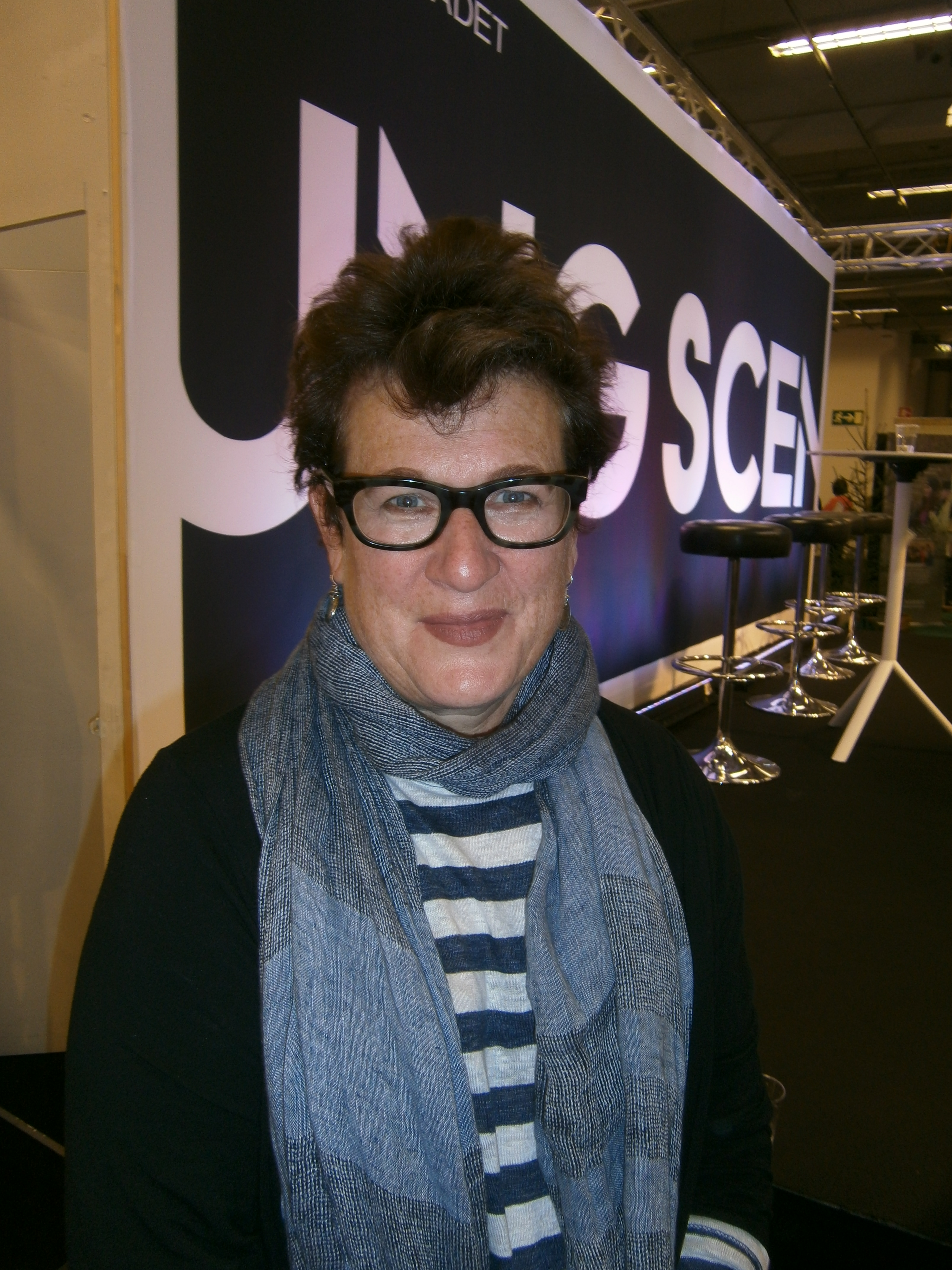 Meg Rosoff at the Göteborg Book Fair september 2016.